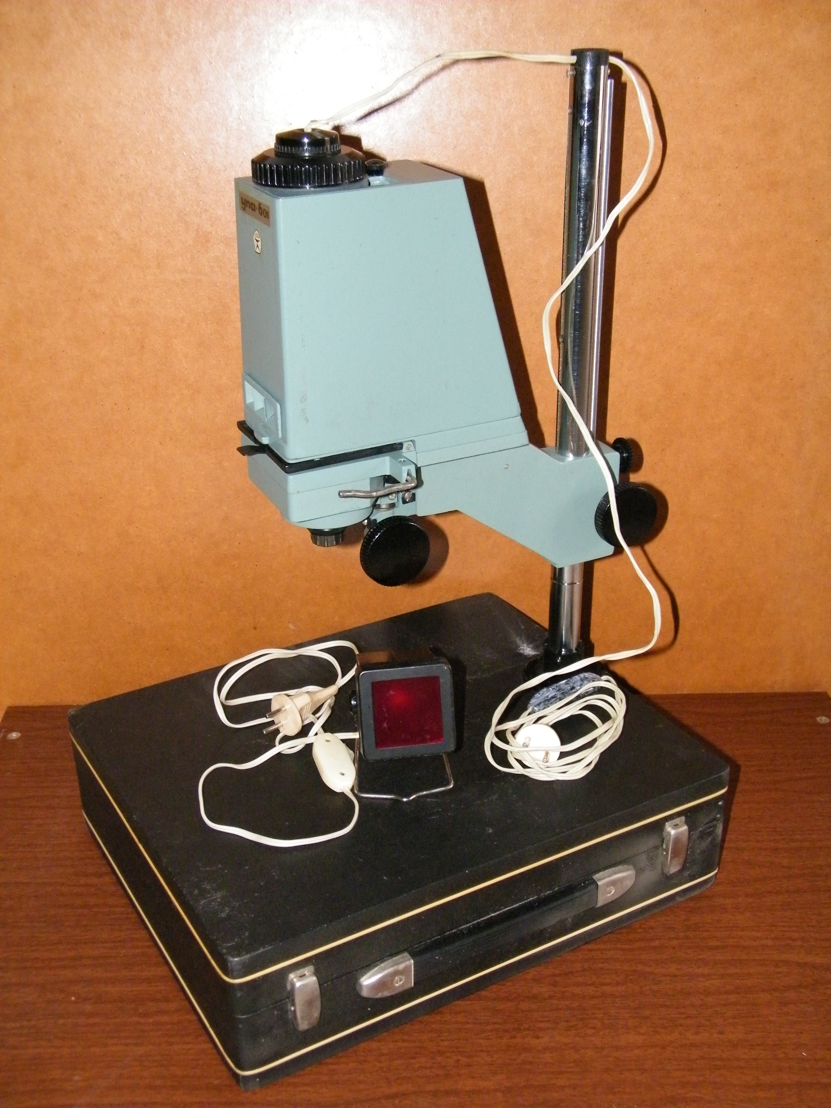 Фотоувеличитель УПА-601